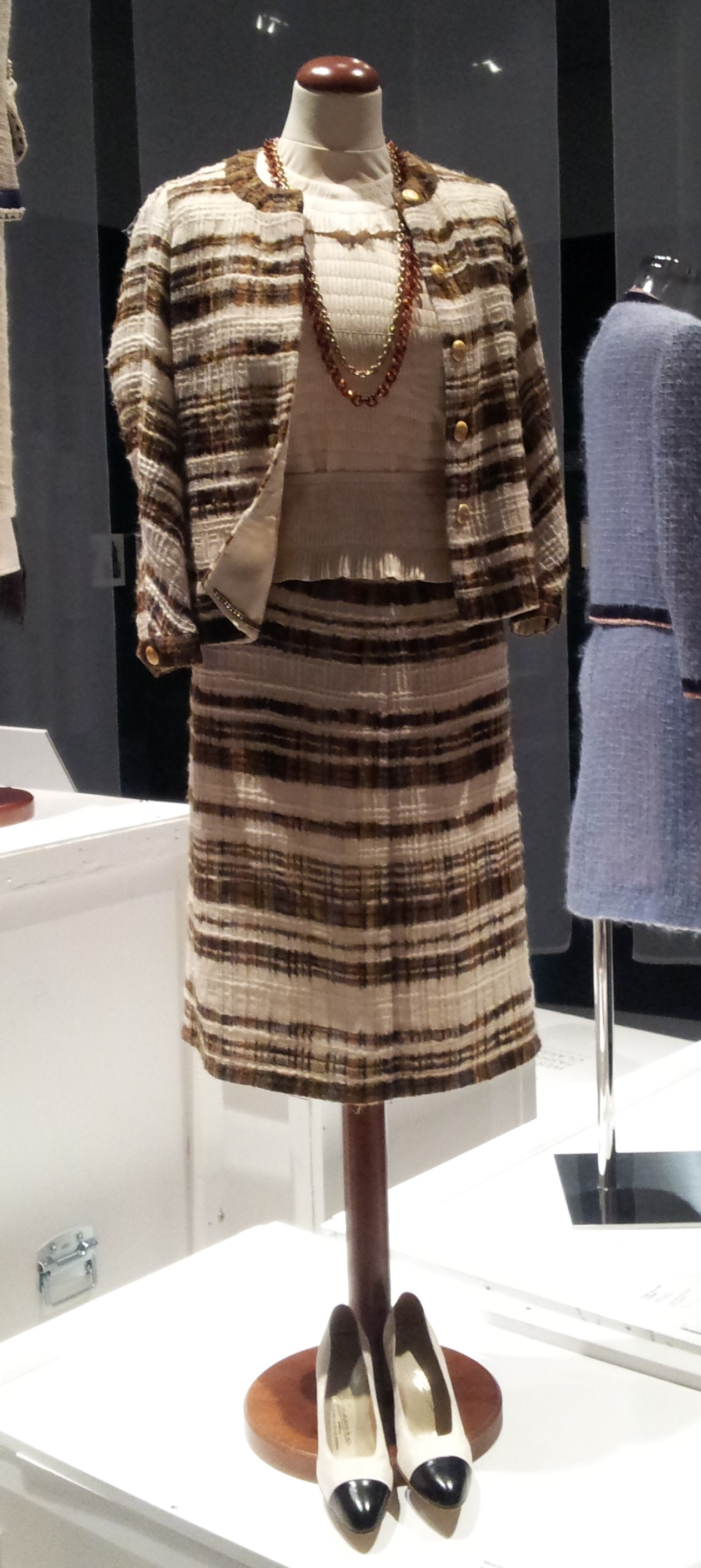 Brown and cream striped wool bouclé tweed Chanel suit with pleated and shirred silk blouse. 1965.